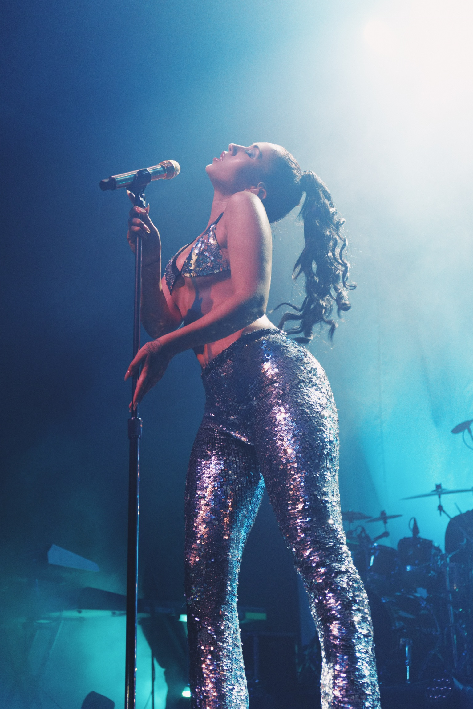 Kali Uchis